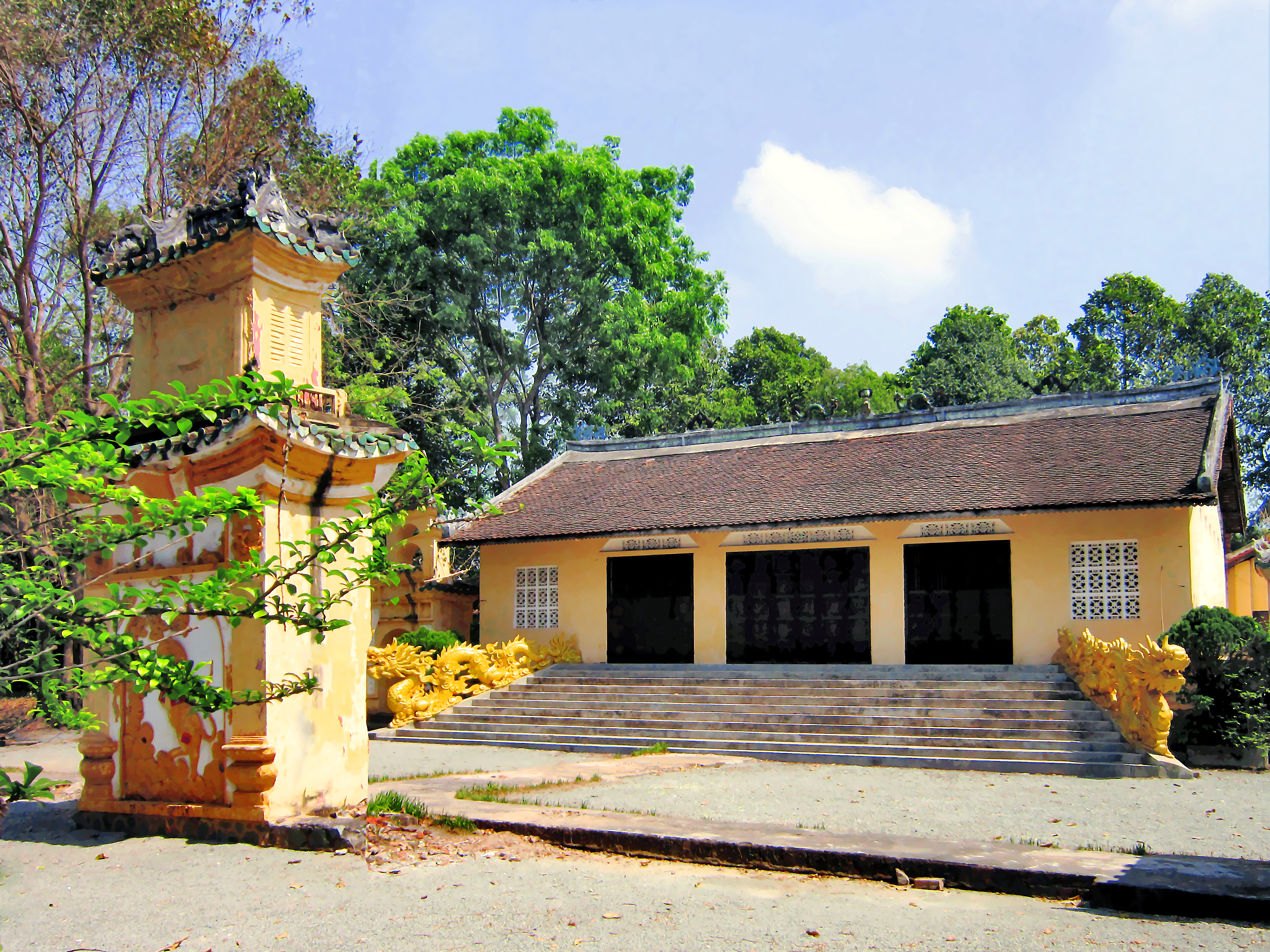 Đình Phú Cường, tục gọi là đình Bà Lụa, hiện tọa lạc ở phường Phú Thọ, thành phốThủ Dầu Một, tỉnh Bình Dương, Việt Nam.